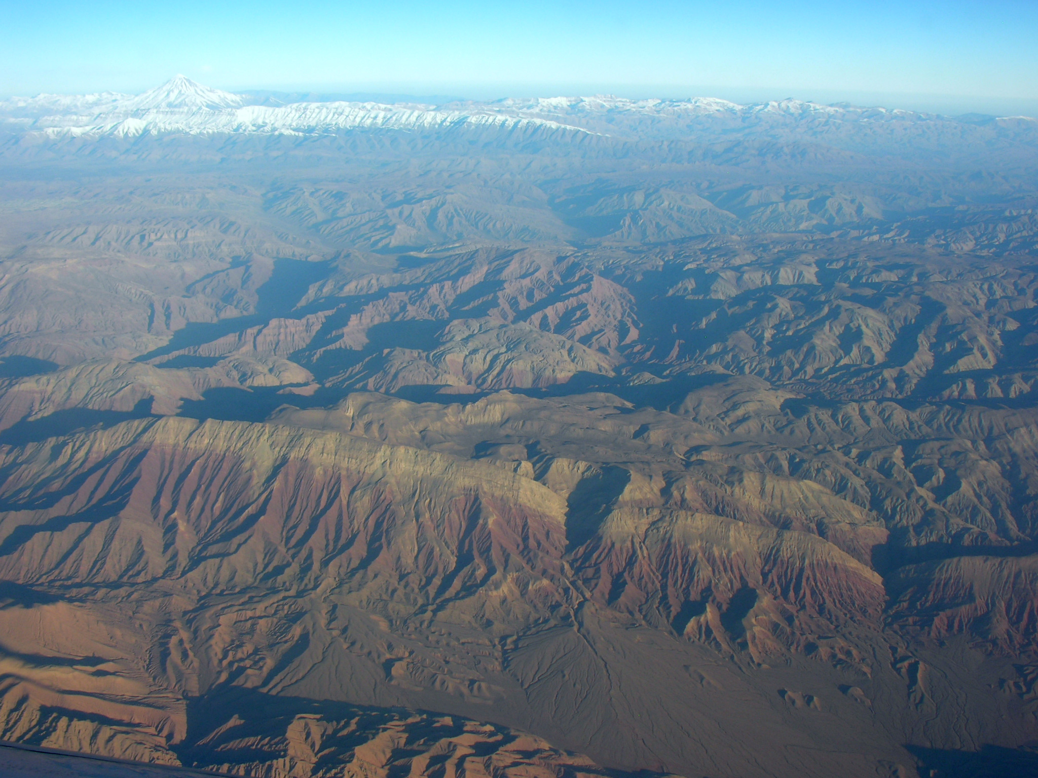 Aerial View of Damavand